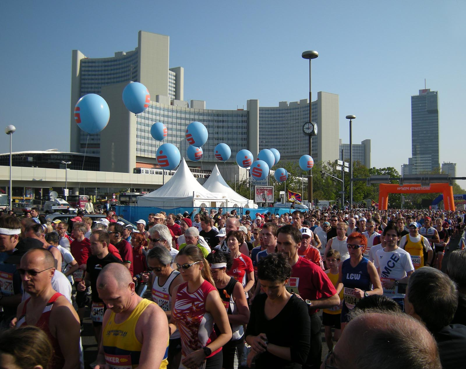 Vienna City Marathon 2008 Note: My camera's time setting was about 1h4min late to local time.